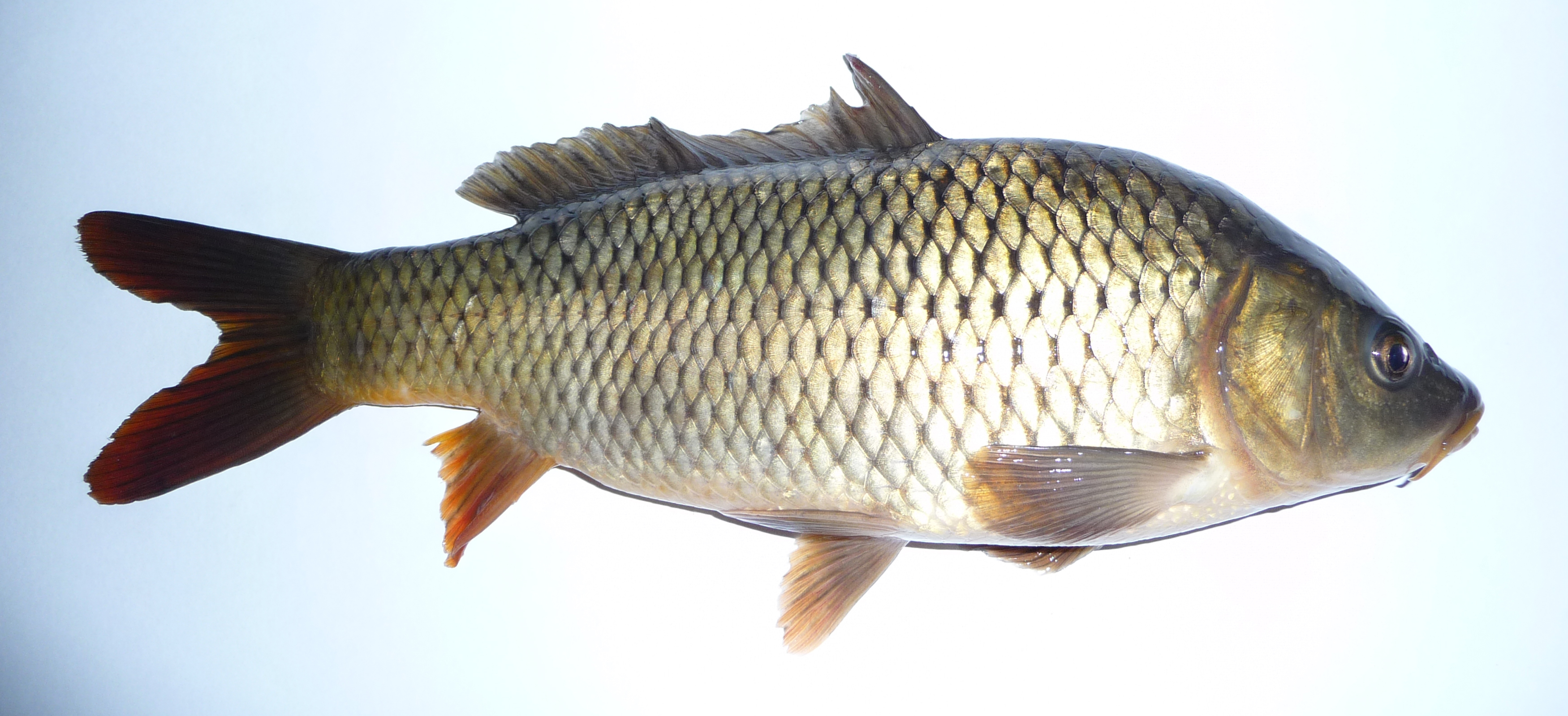 Common carp or European carp (Cyprinus carpio)